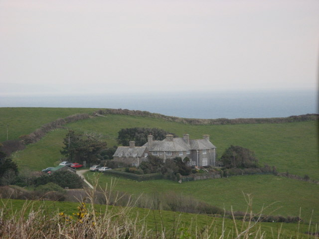 Lamledra